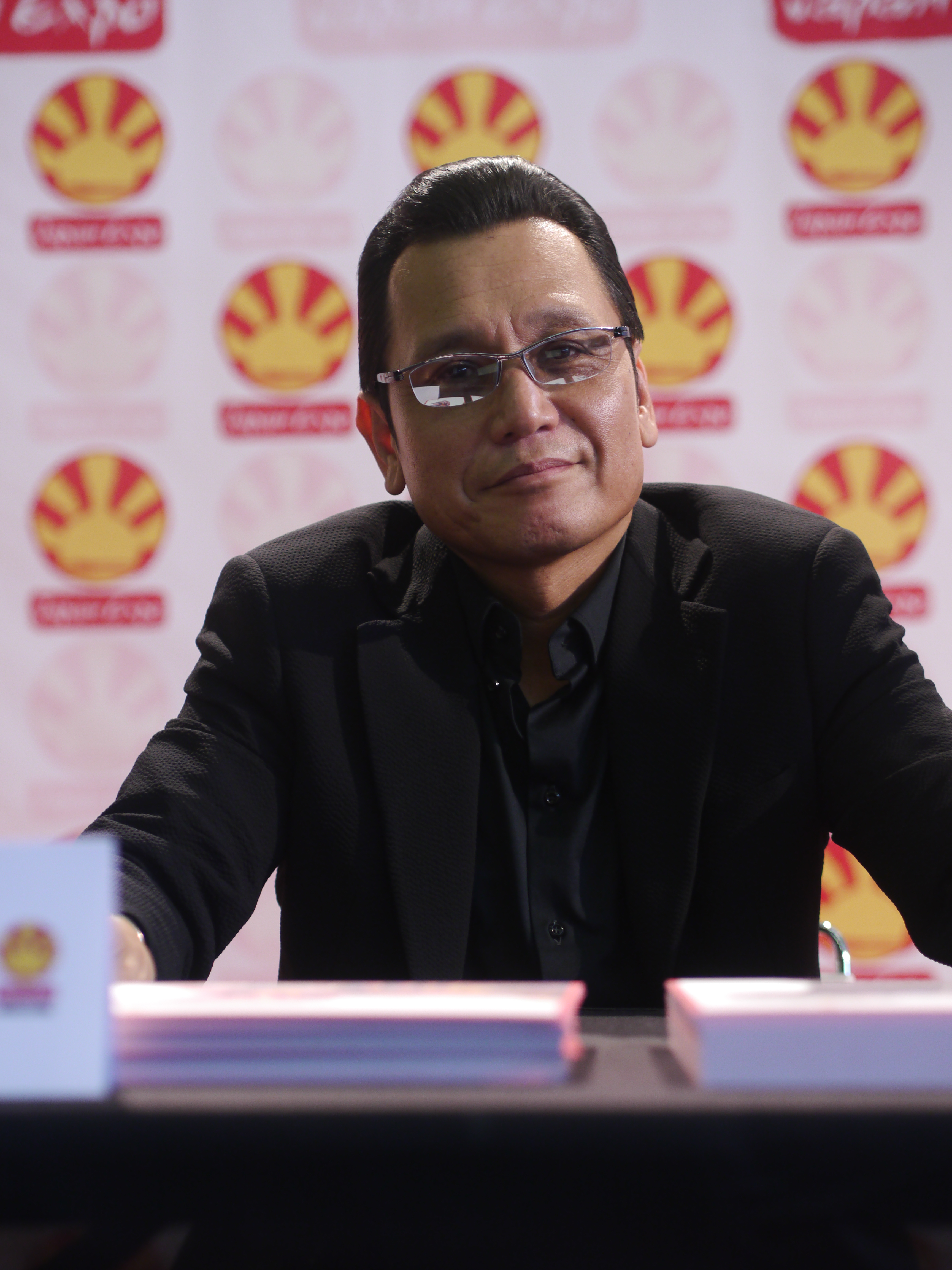 Japan Expo Festival, 14th impact